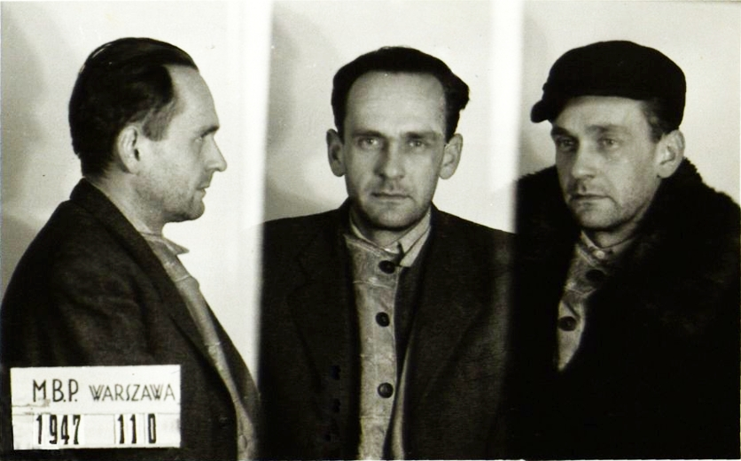 Stanisław Kasznica (1908-1948) - the last commander of the National Armed Forces (NSZ), an anti-communist, and anti-Nazi paramilitary organization, which was part of the Polish resistance movement in World War II and in the period following it.